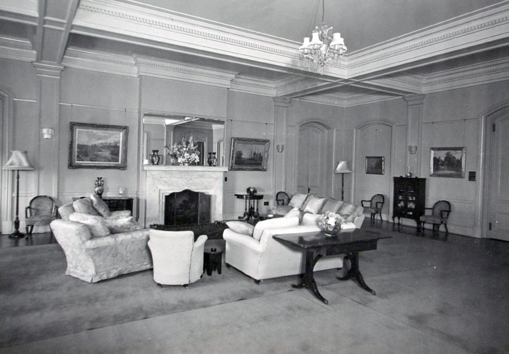 View of Government House, Reception Room. (Fernberg Road, Paddington. Alternative name is Fernberg.)